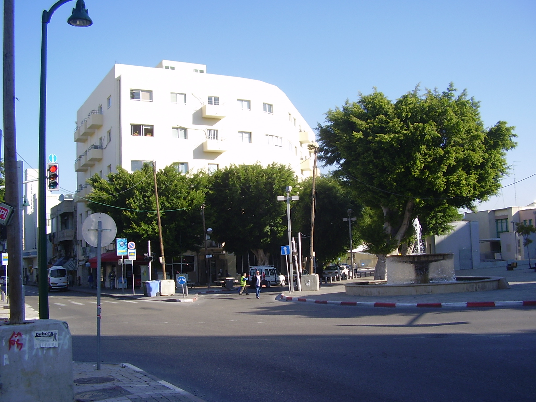 Jaffa municipality (1935-1948)